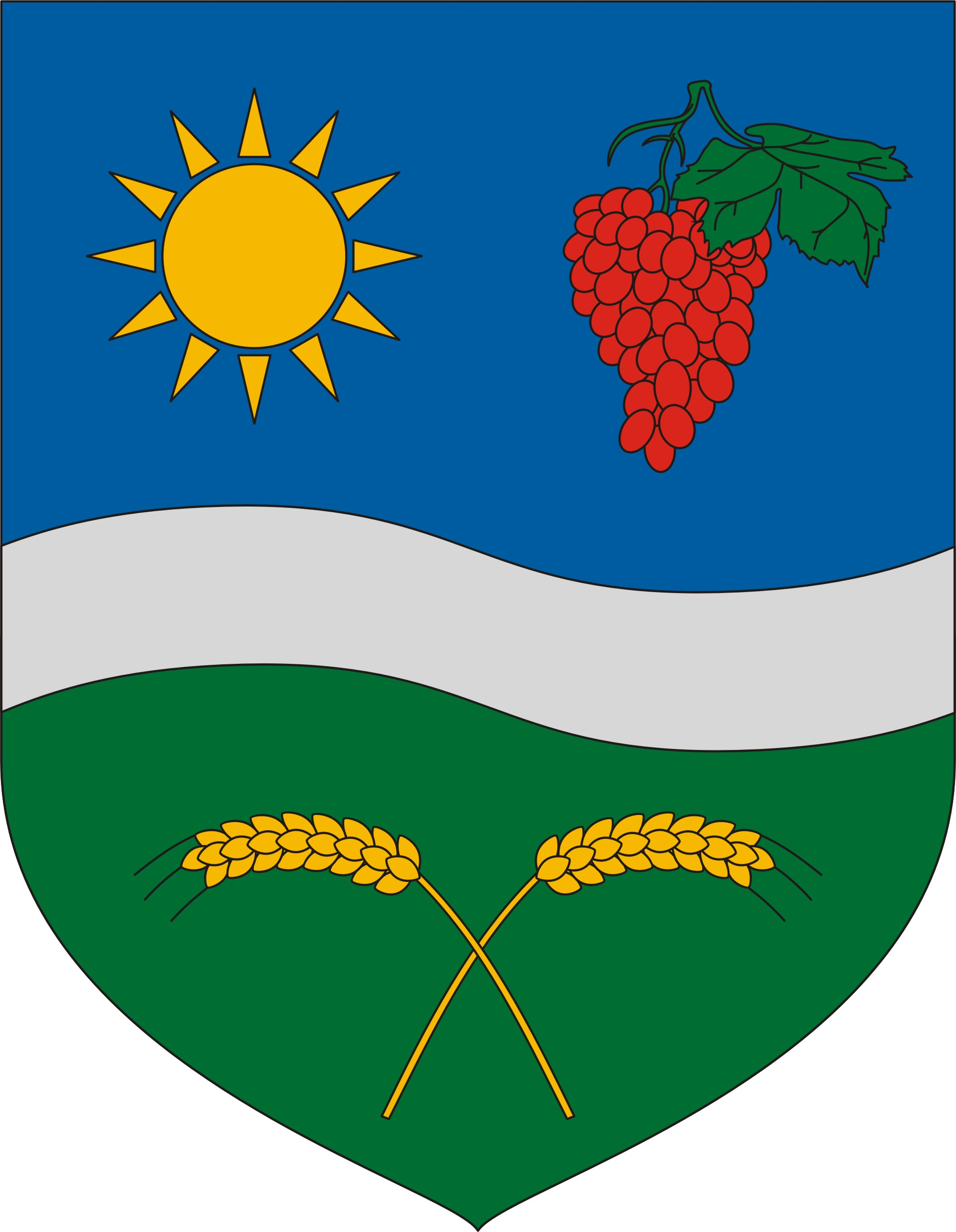 Coat of arms of Keszőhidegkút